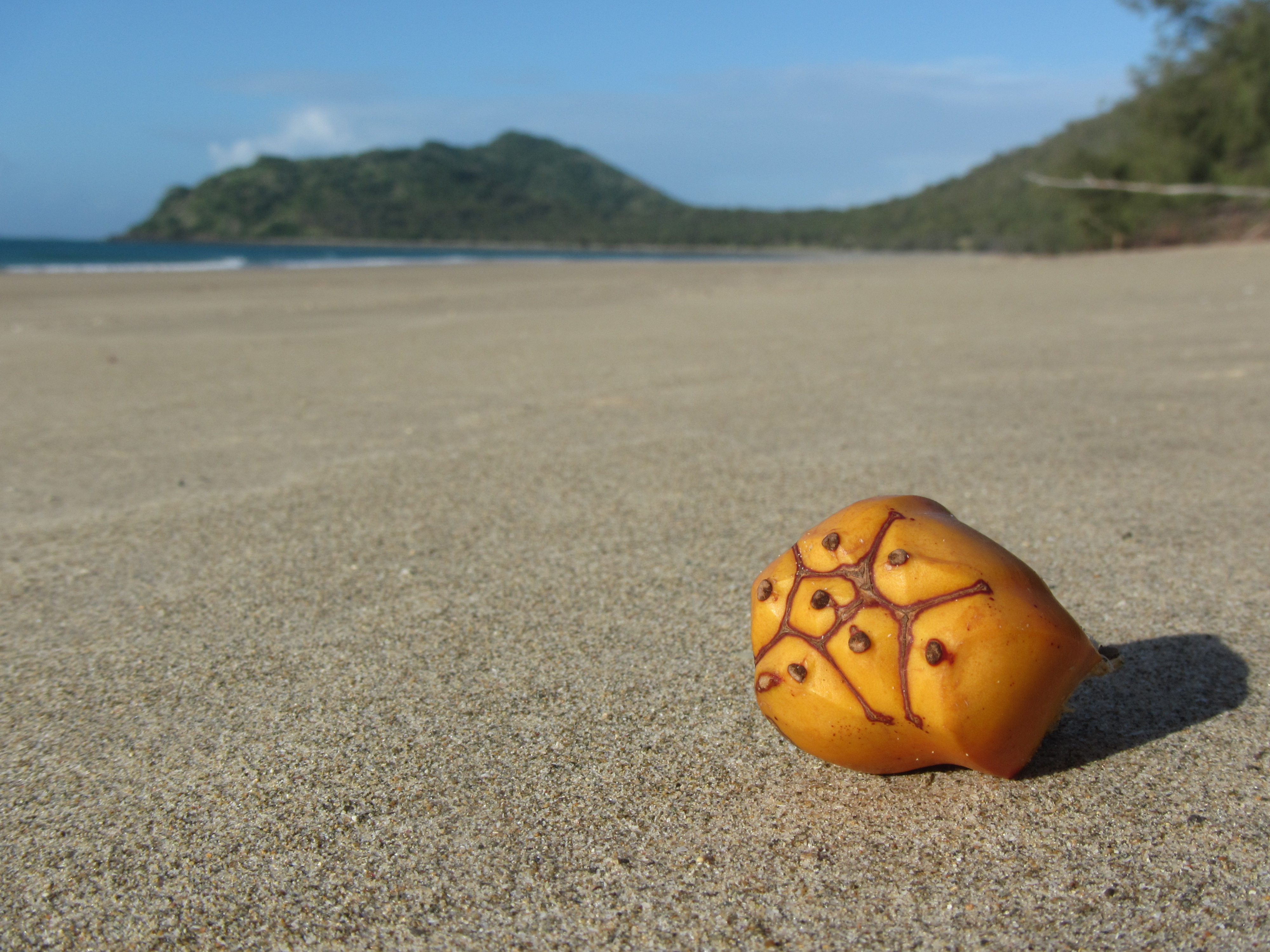 A pandanus seed that has fallen onto a beach on Curlew Island.